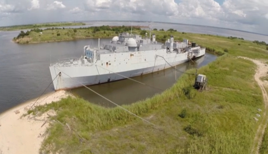 The former U.S. Navy dock landing ship USS Shadwell (LSD-15) in Mobile Bay, Alabama (USA), circa 2011. Shadwell was in service from 1944 to 1970. Since 1988 she is used by the U.S. Naval Research Laboaratory to develop damage control techniques.